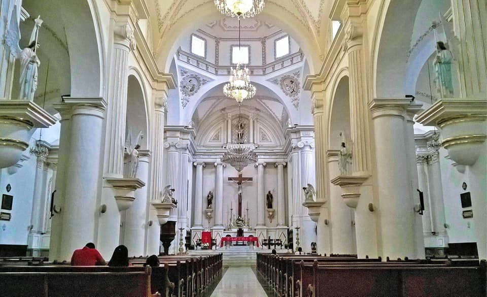 interior of the cathedral of orizaba